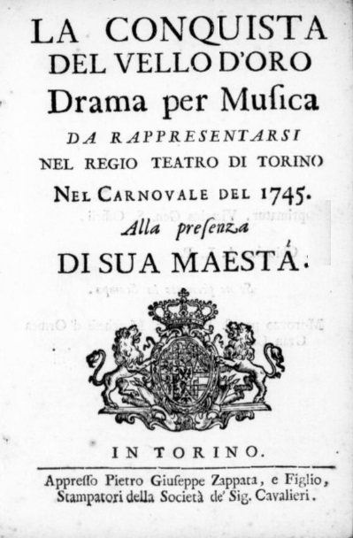 Frontespizio "La conquista del vello d'oro" di G. Sordella